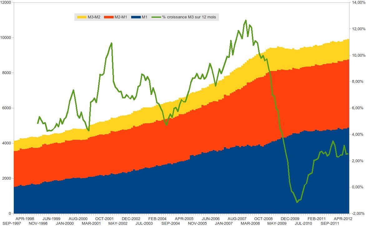 Money Supply of Eurosystem €, composed by M1, M2-M1 and M3-M2 monetary aggregates.